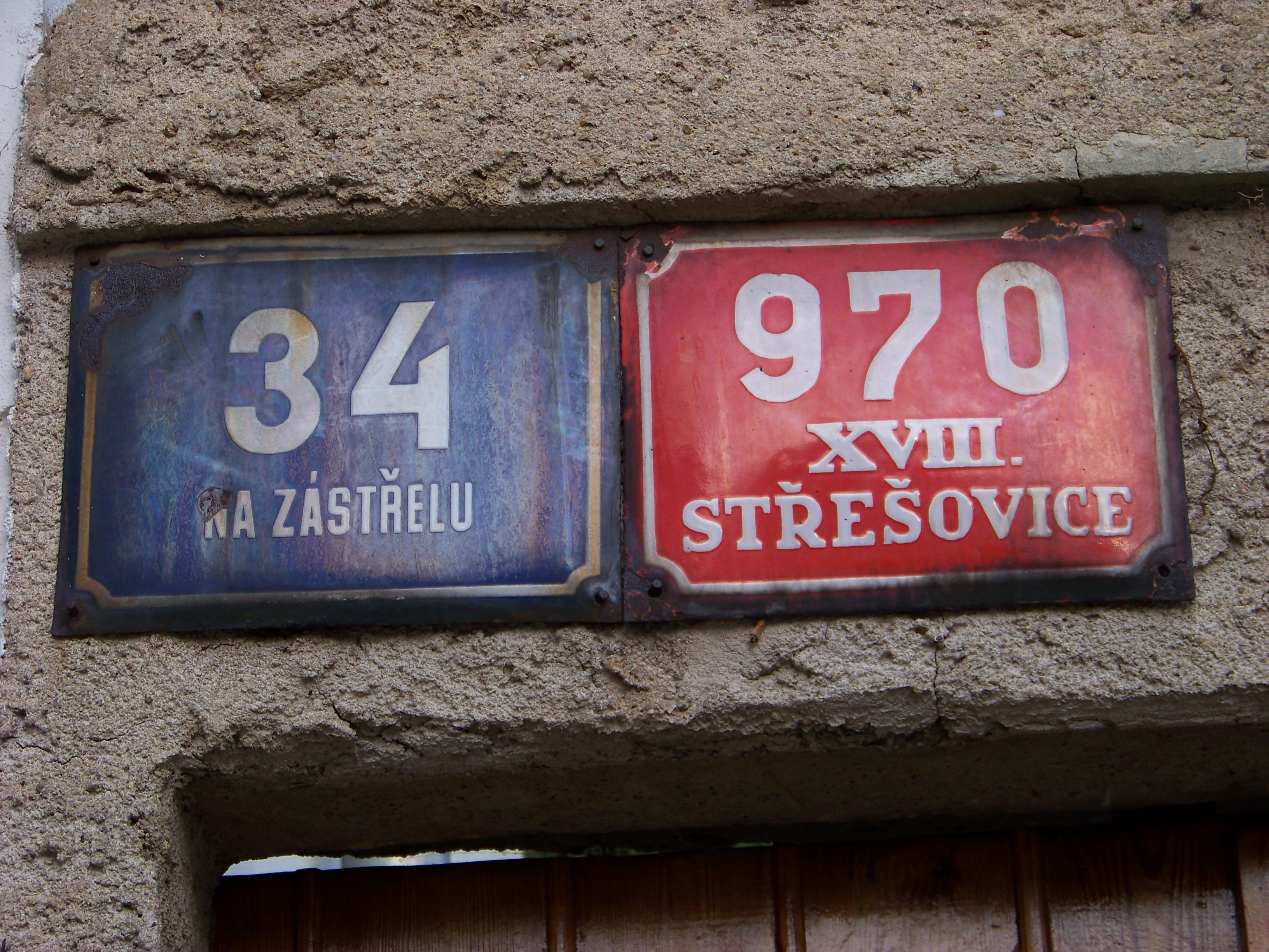 Prague-Střešovice, Czech Republic. Na zástřelu 970/34, house numbers.